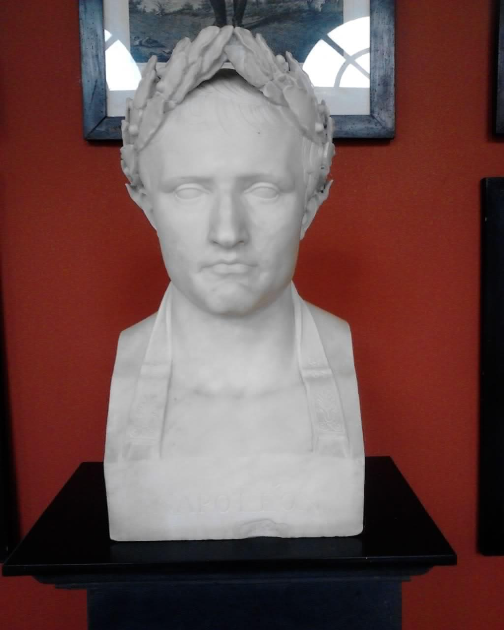 Head of Napolen BELLAGIO ITALY